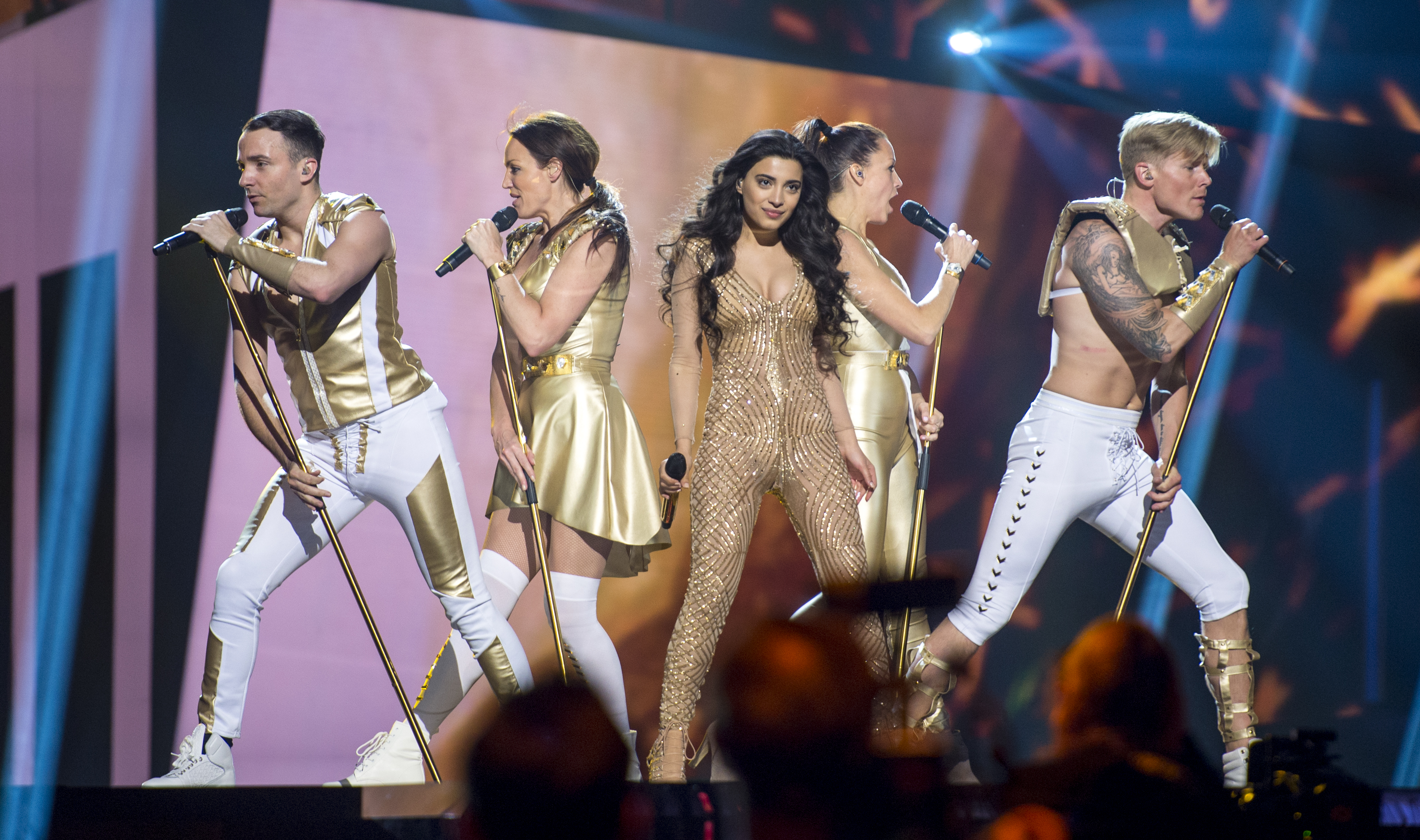 Samra representing Azerbaijan with the song "Miracle" during a rehearsal before the first semi final of the Eurovision Song Contest 2016 in Stockholm. (Help translate this text)